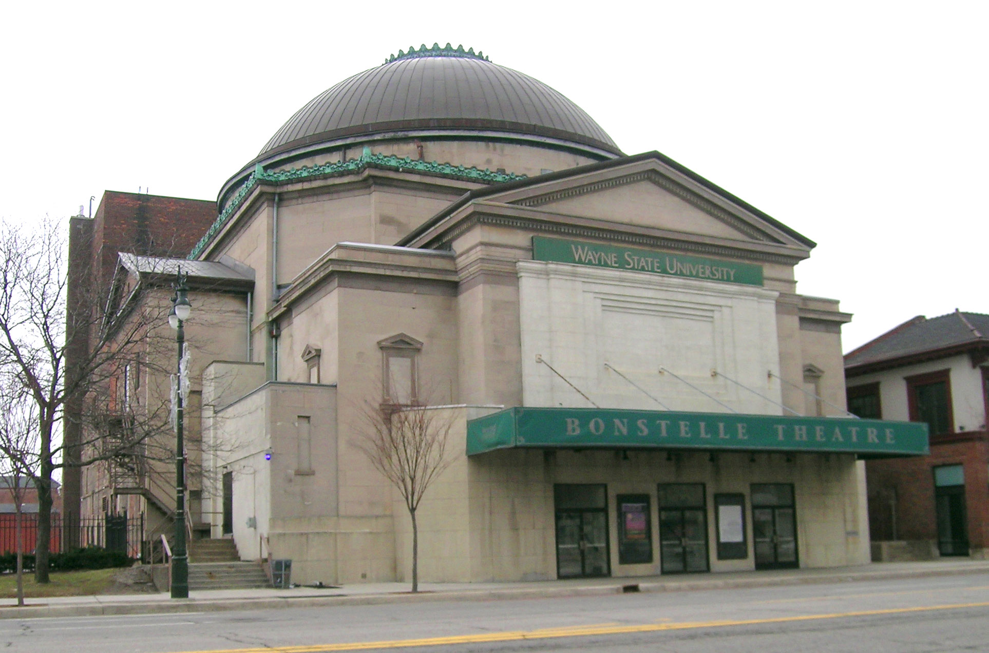 Temple Beth-El (1902) — Beth-El's first temple, in central Detroit, southeastern Michigan. Designed by congregant Albert Kahn in the Neoclassical style, now on the National Register of Historic Places (NRHP # 82002911). Contributing property in the Brush Park Historic District. Present day Wayne State University Bonstelle Theater.